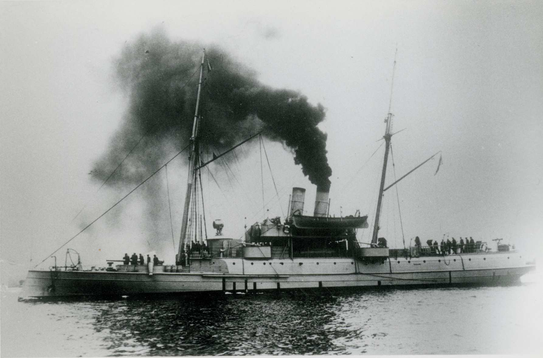 The Swedish gunboat HMS Urd sometime after 1894 when her 27 cm gun was replaced with a 15 cm gun on foredeck and she got 57 mm guns and searchlight. From Curt S. Ohlsson's collections.